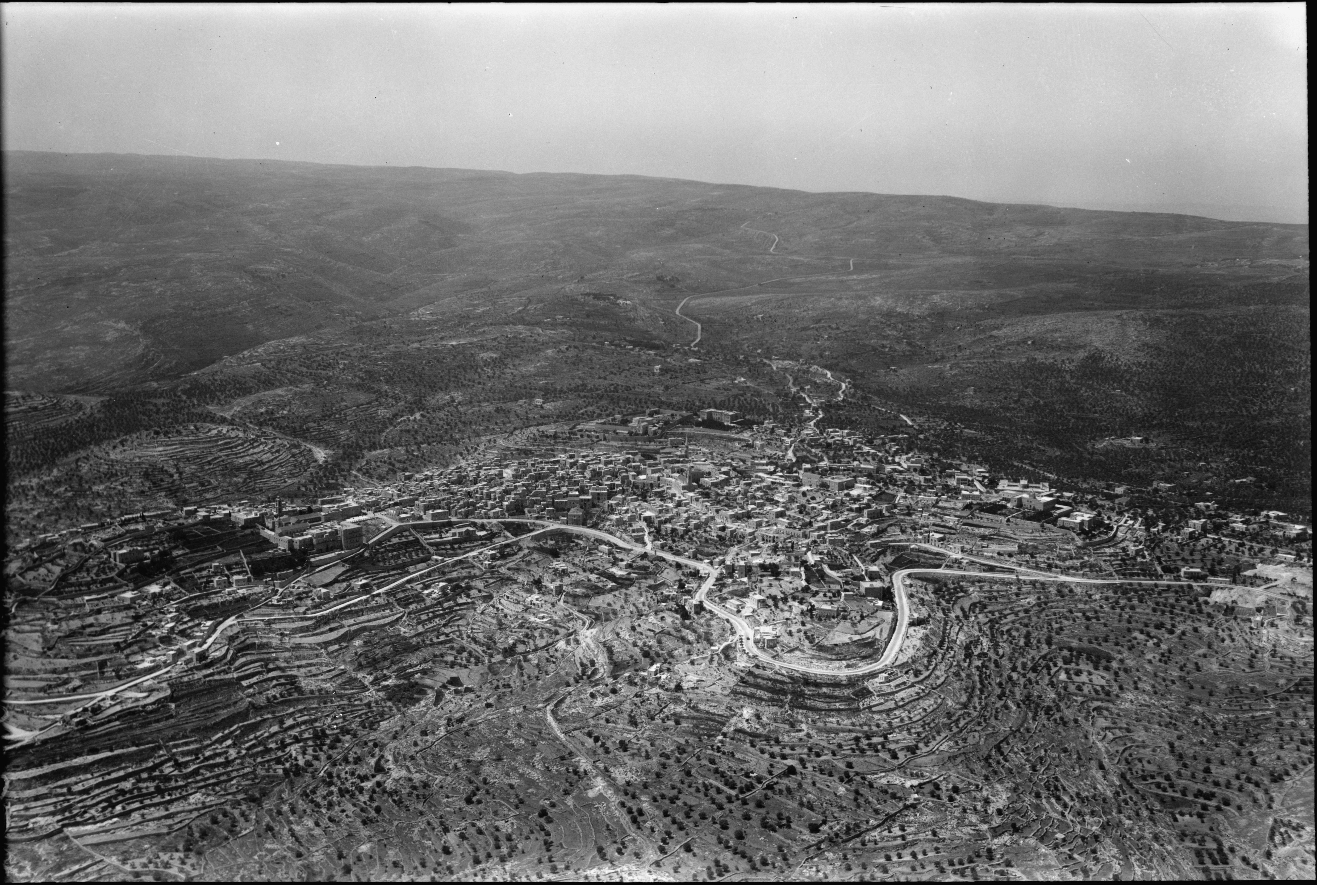 Title: Air views of Palestine. Bethlehem and surroundings. Bethlehem. A general view overlooking the town southward along the distant Hebron Road Abstract/medium: G. Eric and Edith Matson Photograph Collection Physical description: 1 negative